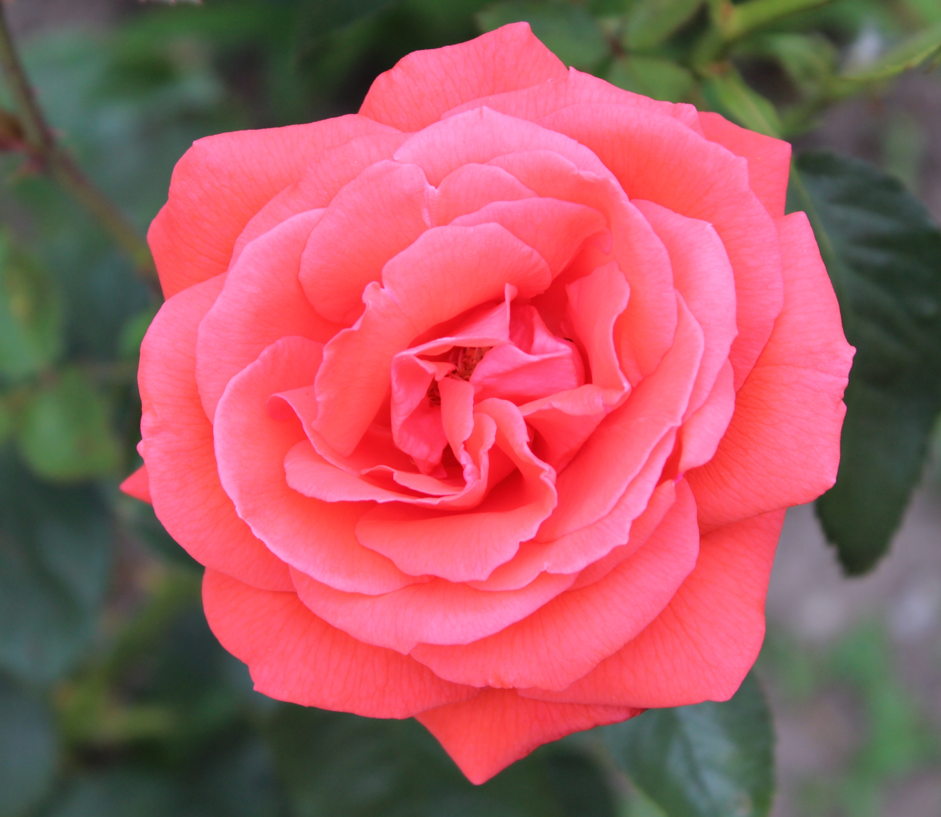 Rosa 'Super Star' in the Rosarium Wettsteinpark in Vienna. Identified by sign. (Edelrose 'Super Star', Z.J.: 1960)